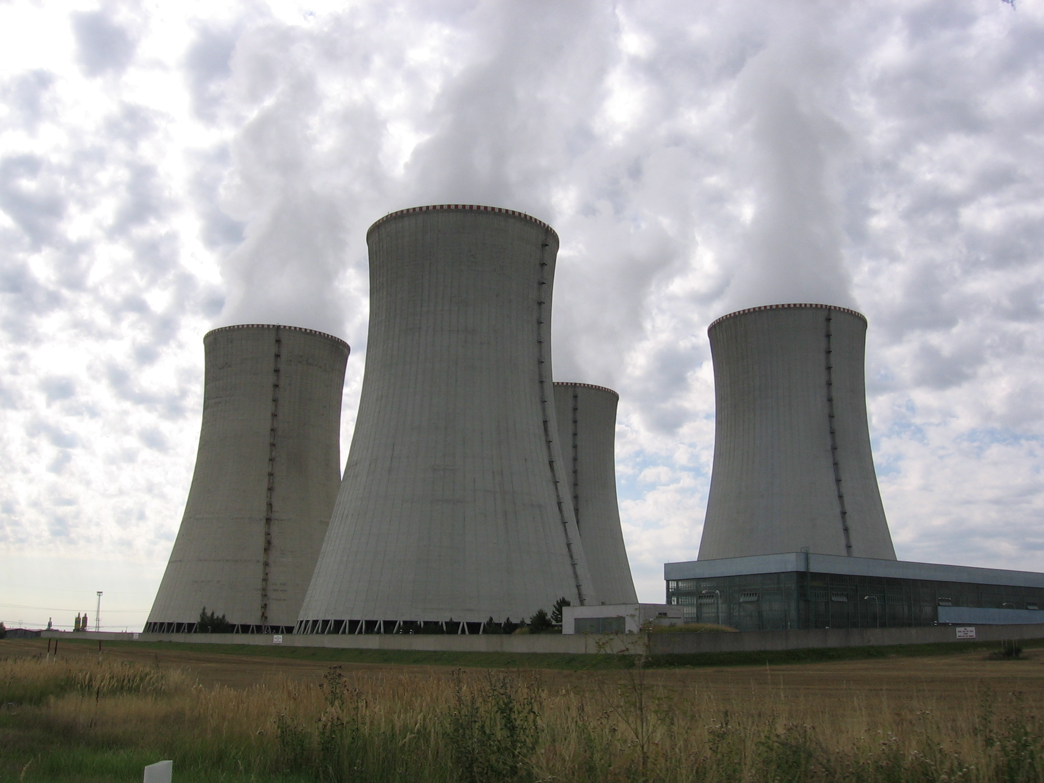 cooling towers of the Dukovany nuclear power plant (southern Moravia, Czech Republic)